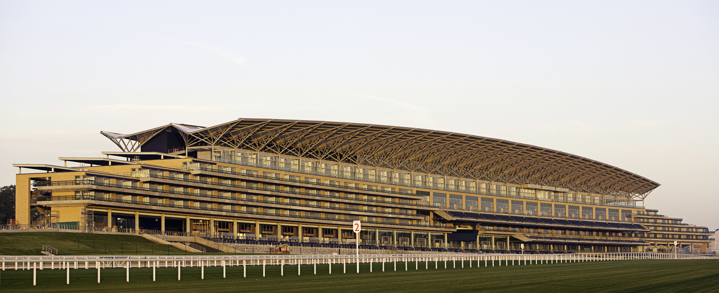 Ascot Racecourse The 2006 stand designed by architects HOKSVE and built by Laing O'Rourke and engineers Buro Happold. This early morning shot was taken as the course was being prepared for the new season.